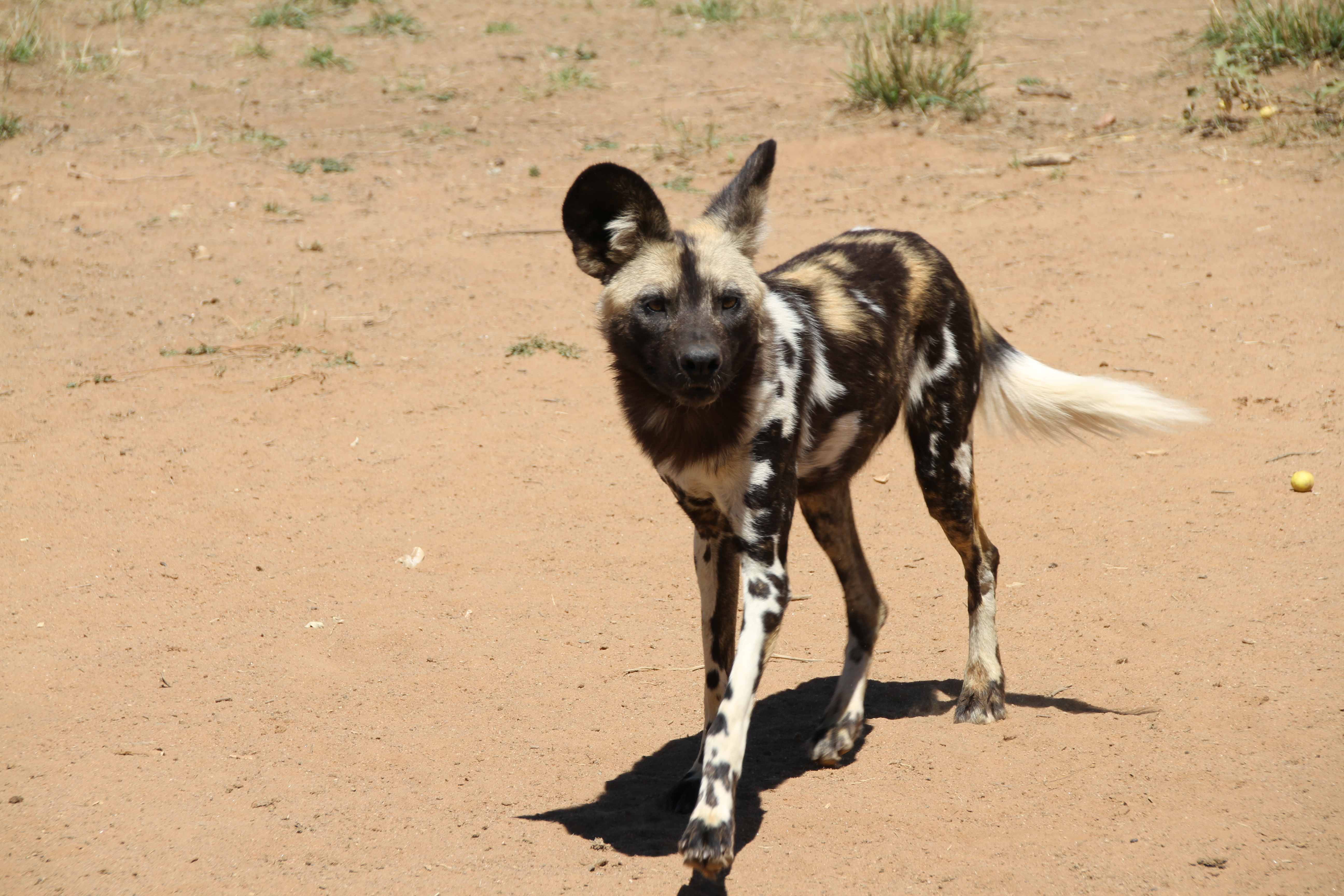 The West African Wild Dog is one of five subspecies of wild dog.